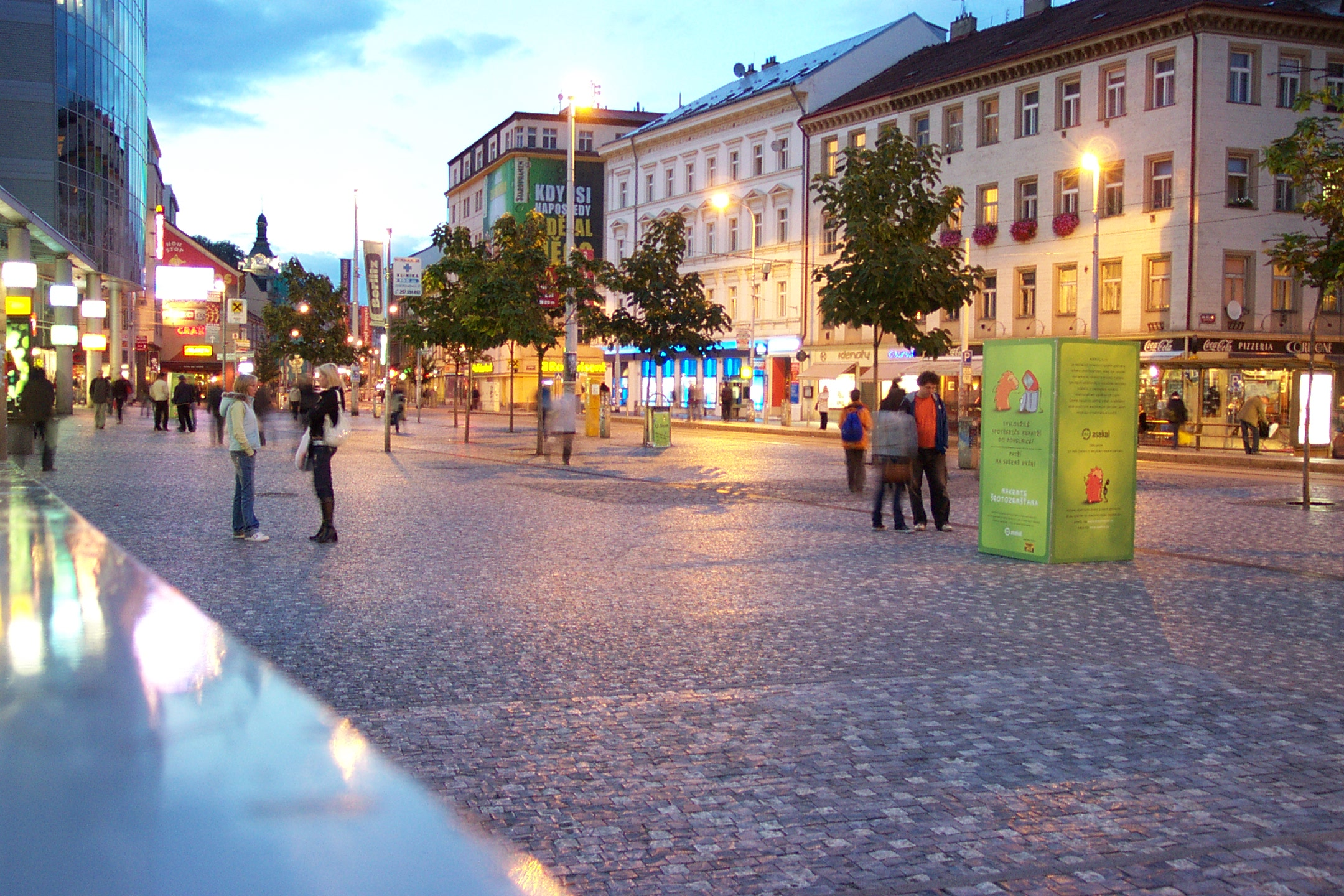 The Anděl crossing in Prague-Smíchov